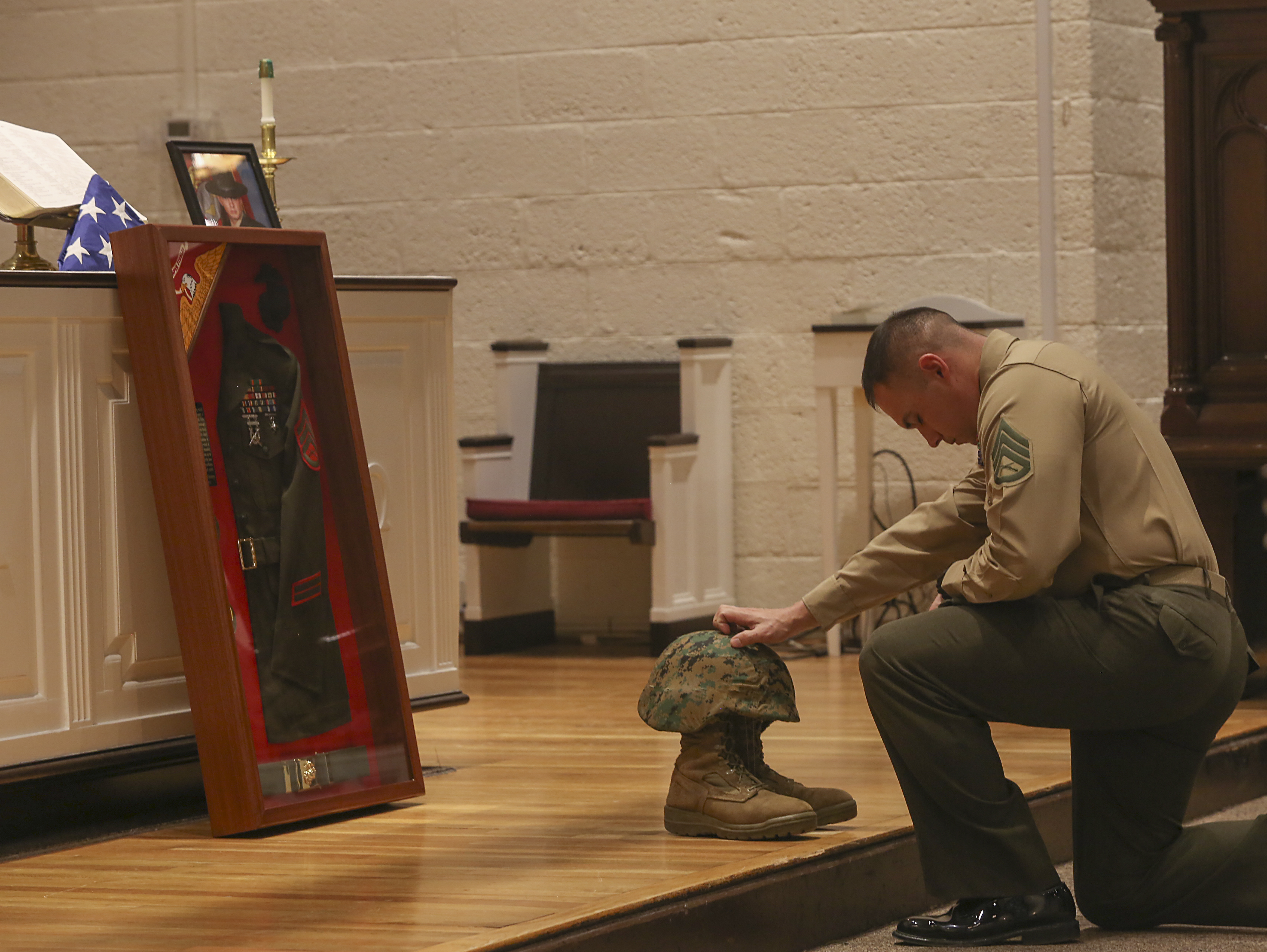 A Marine pays his respects during a memorial ceremony for Staff Sgt. Andrew Stevens, a bulk fuel specialist with 8th Engineer Support Battalion, at the Protestant Chapel aboard Marine Corps Base Camp Lejeune, Jan. 23. To end the ceremony, role was called three times, only to be answered by silence. “Taps” was played and one by one the Marines exited the pews and kneeled beside Stevens’ boots and Kevlar to pay their final respects. (U.S. Marine Corps photo by Lance Cpl. David N. Hersey/Released)